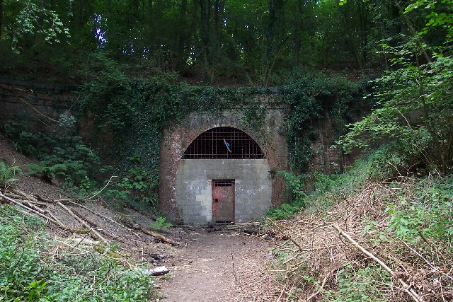 Baynards Tunnel, Surrey